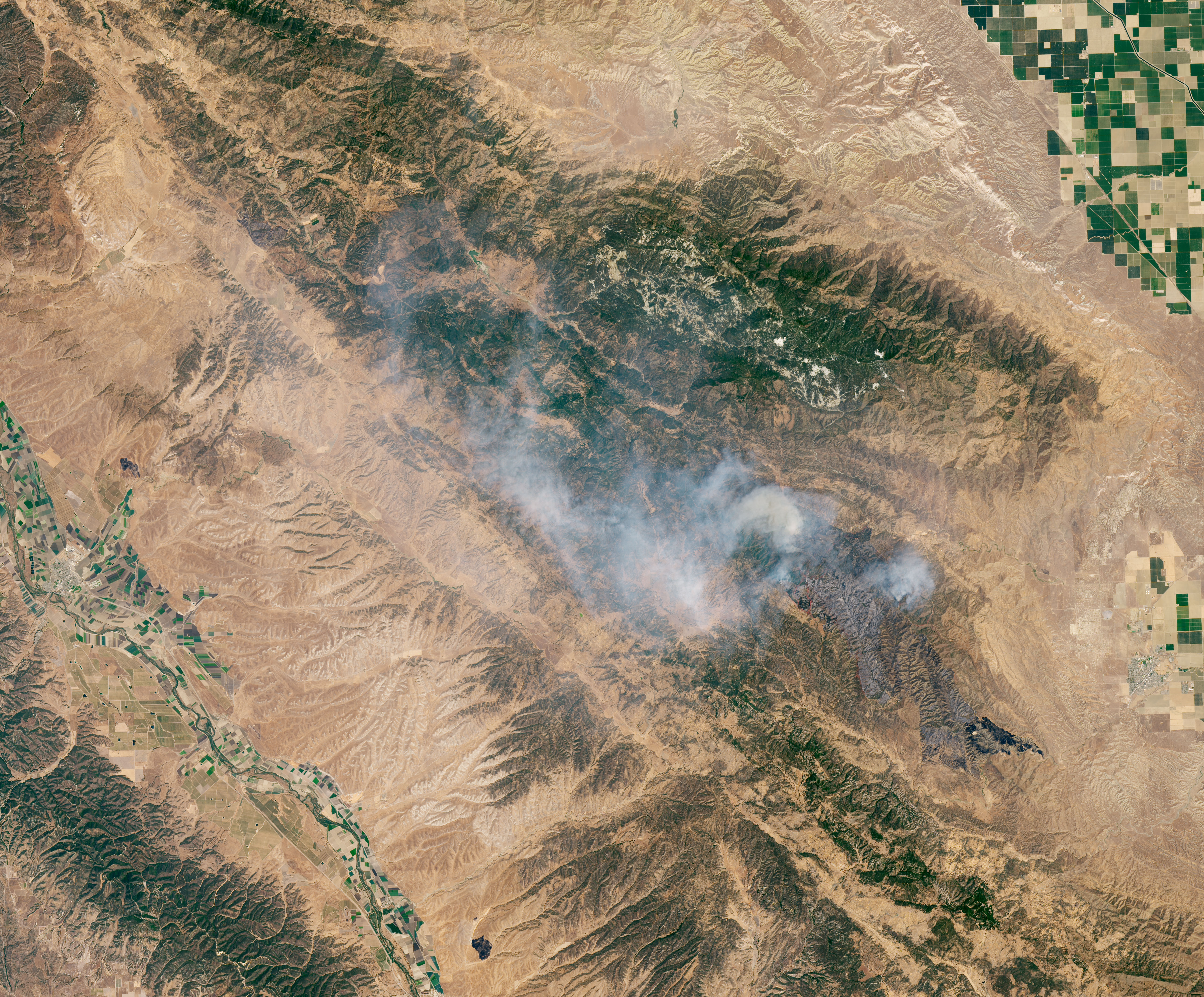 Satellite image from the Landsat 8 showing smoke billow from the Mineral Fire as it burns west of Coalinga on July 17, 2020.